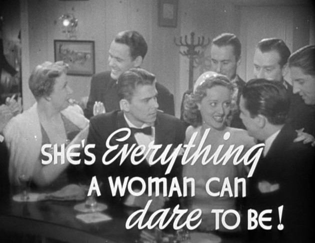 Cropped screenshot showing Ronald Reagan and Bette Davis in the center of the group, from the trailer for the film Dark Victory.